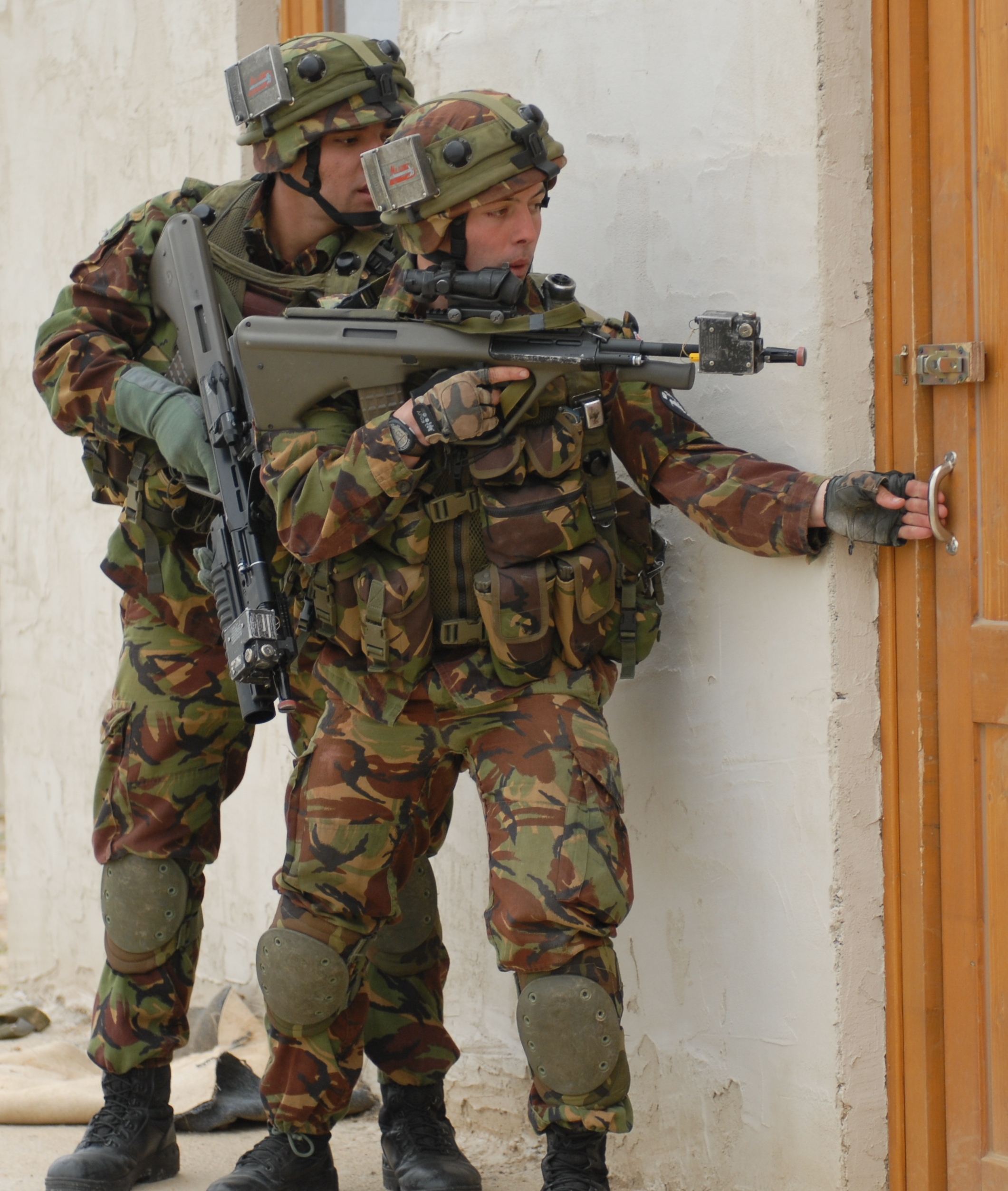 Joint Multinational Readiness Center, Germany, Sept. 20, 2008 - New Zealand Army Soldiers from 2nd /1st Battalion, Royal New Zealand Infantry Regiment prepare to enter and assault a building while participating in a cordon and search training mission Saturday, during Cooperative Spirit 2008 at the Joint Multinational Readiness Center near Hohenfels, Germany. Cooperative Spirit 2008 is a multinational combat training center rotation intended to test interoperability among the American, British, Canadian, Australian and New Zealand Armies.